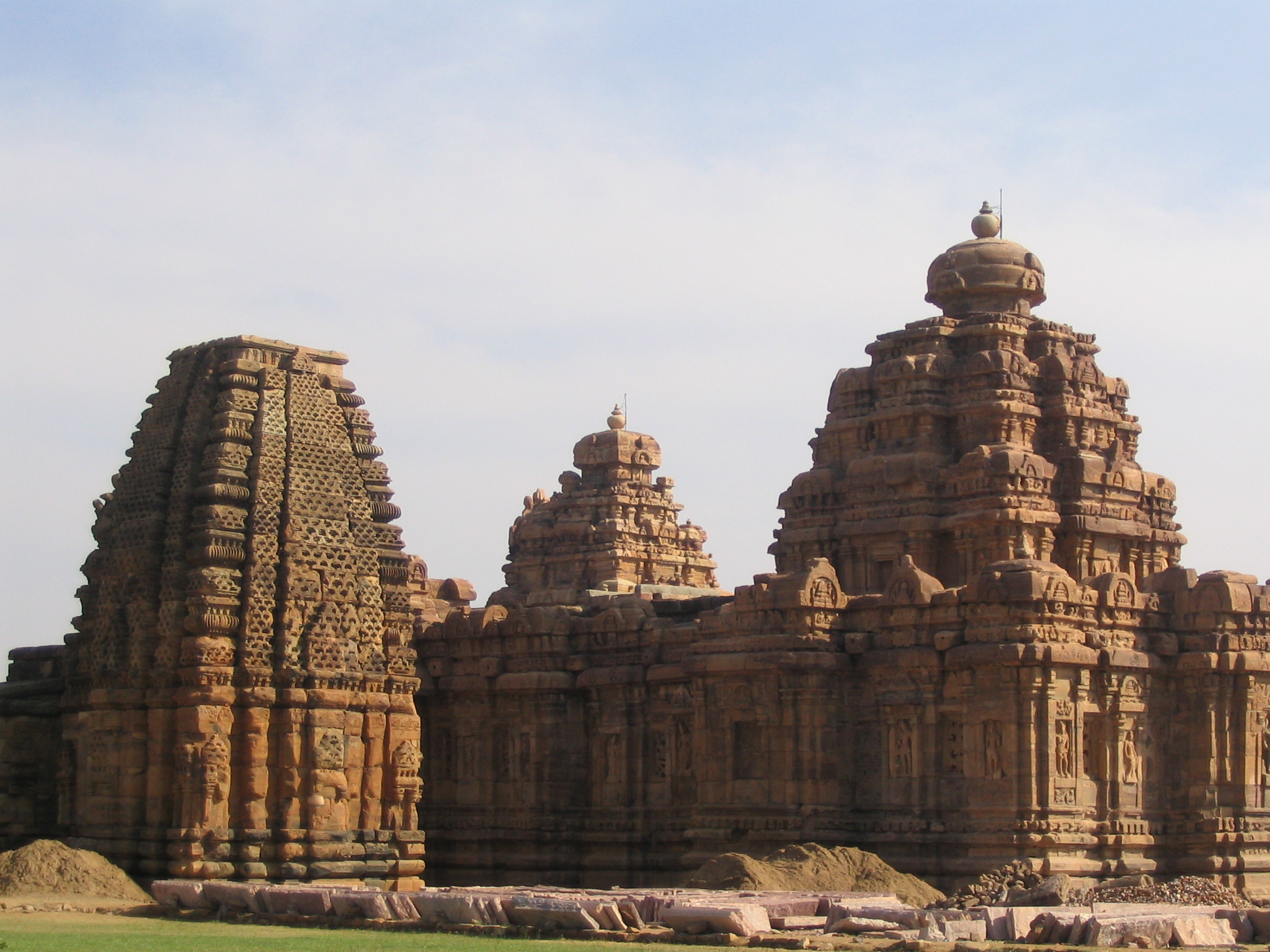 I clicked this picture from my legally bought digital camera. I hold no copyright and this is not a picture from some website in internet